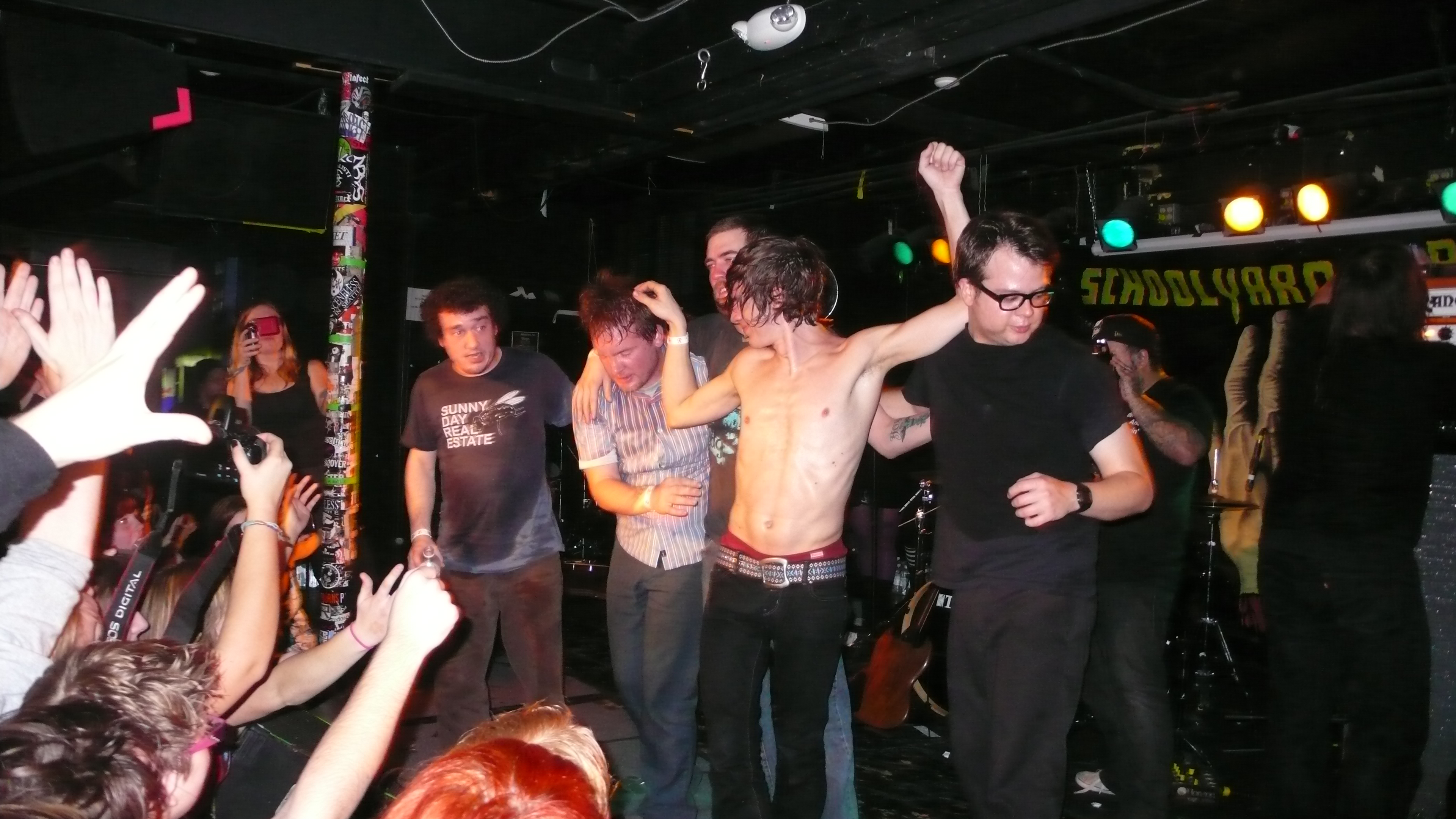 Kane Hodder at Home for the Horrordays in 2009